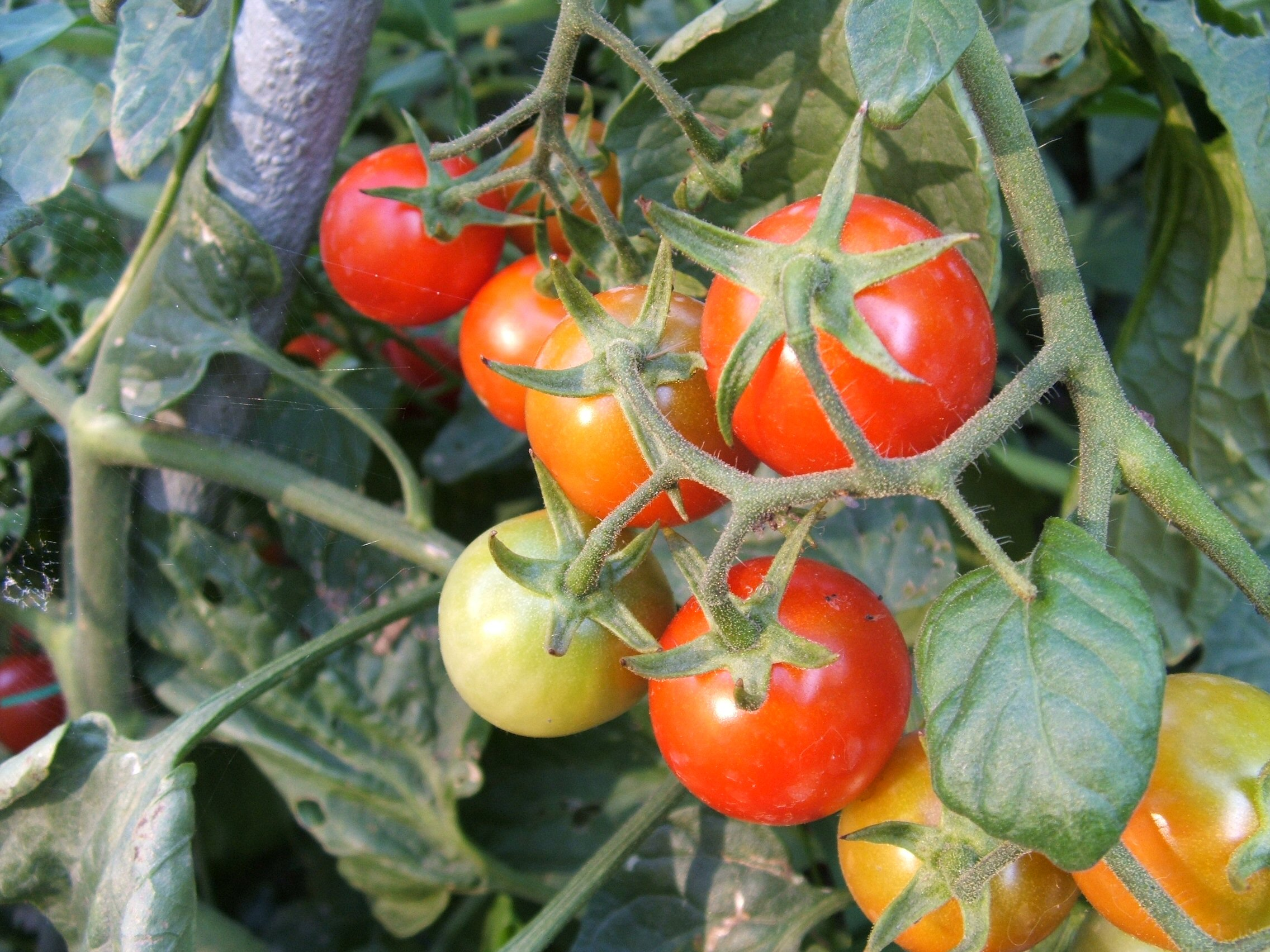 Little tomatoes on the bush